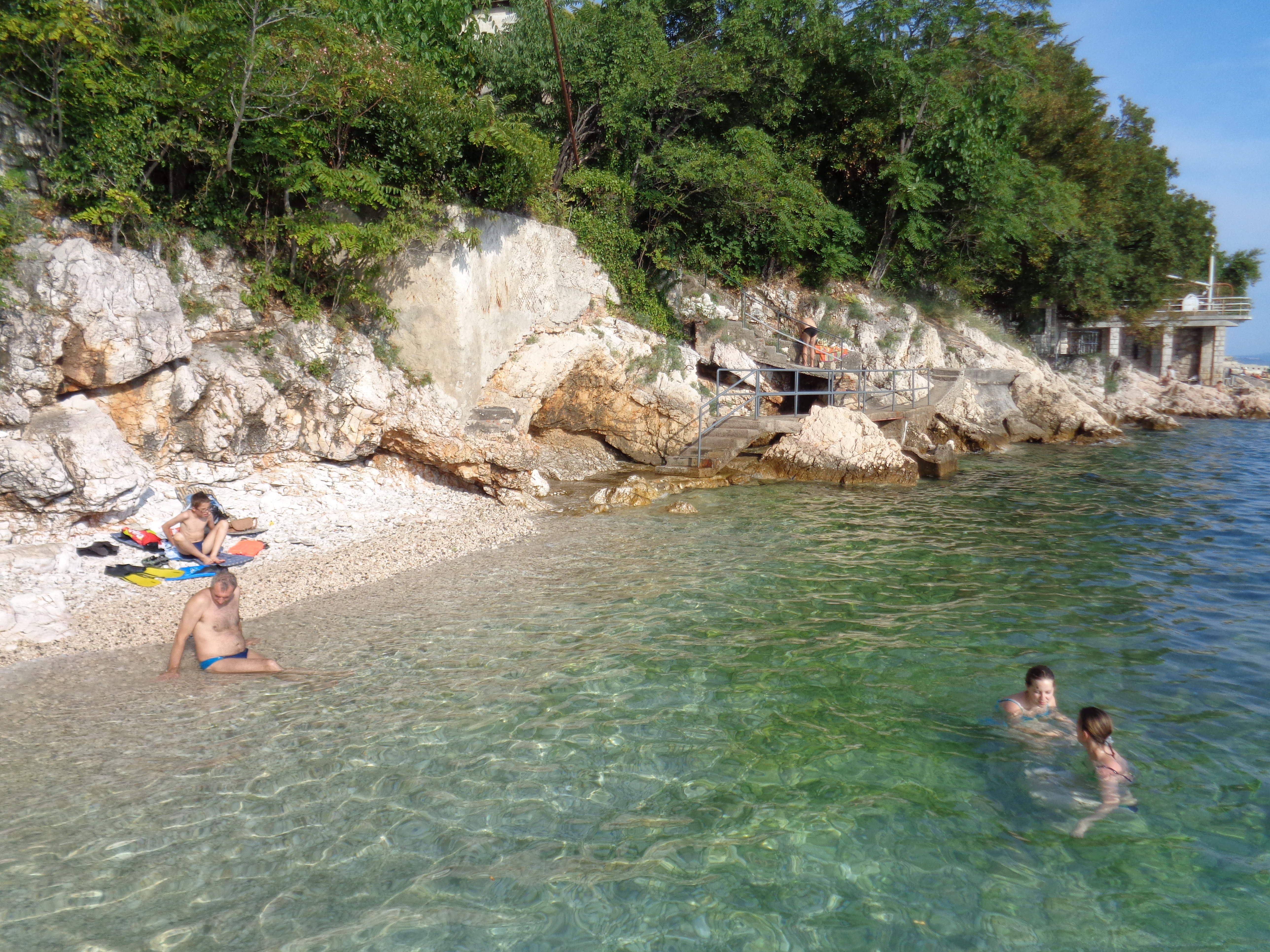 Rijeka, Primorje-Gorski Kotar County, Croatia - Part of the Glavanovo hidden beach at Pećine district